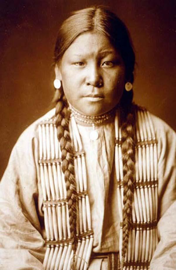 Photograph of Buffalo Calf Road Woman